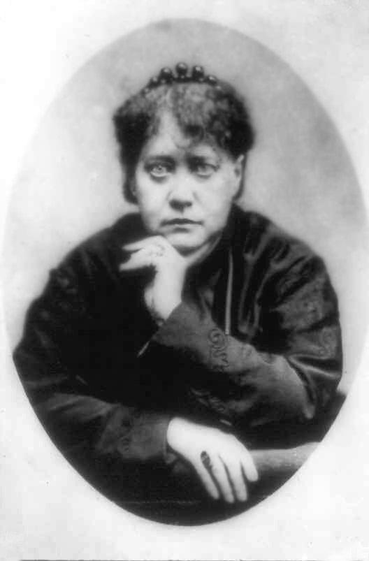 Helena Petrovna Blavatsky (1831-1891)